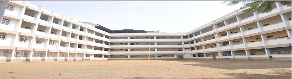 This image is a panorama view of the U-shaped building of S. E. S. High School and Junior College